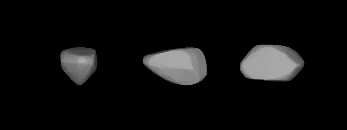 A three-dimensional model of 1482 Sebastiana that was computed using light curve inversion techniques.